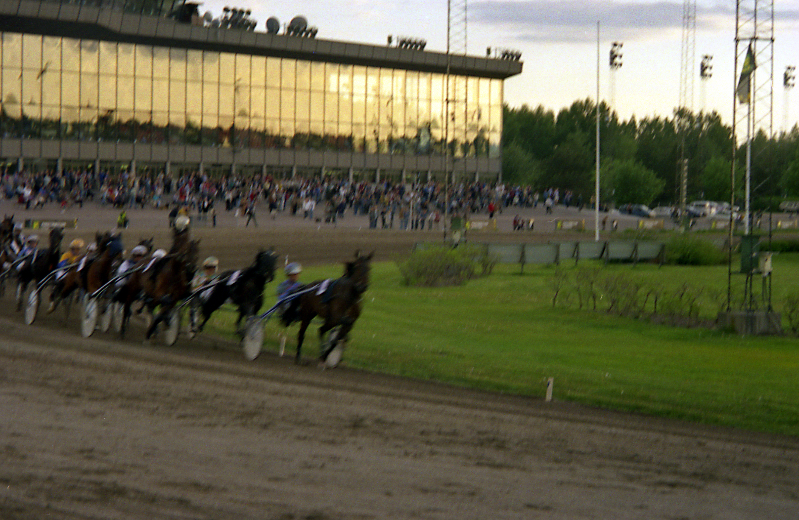 The main building of Vermo tinted golden by the setting sun. Picture taken behind the "back", eastern curve of the track.